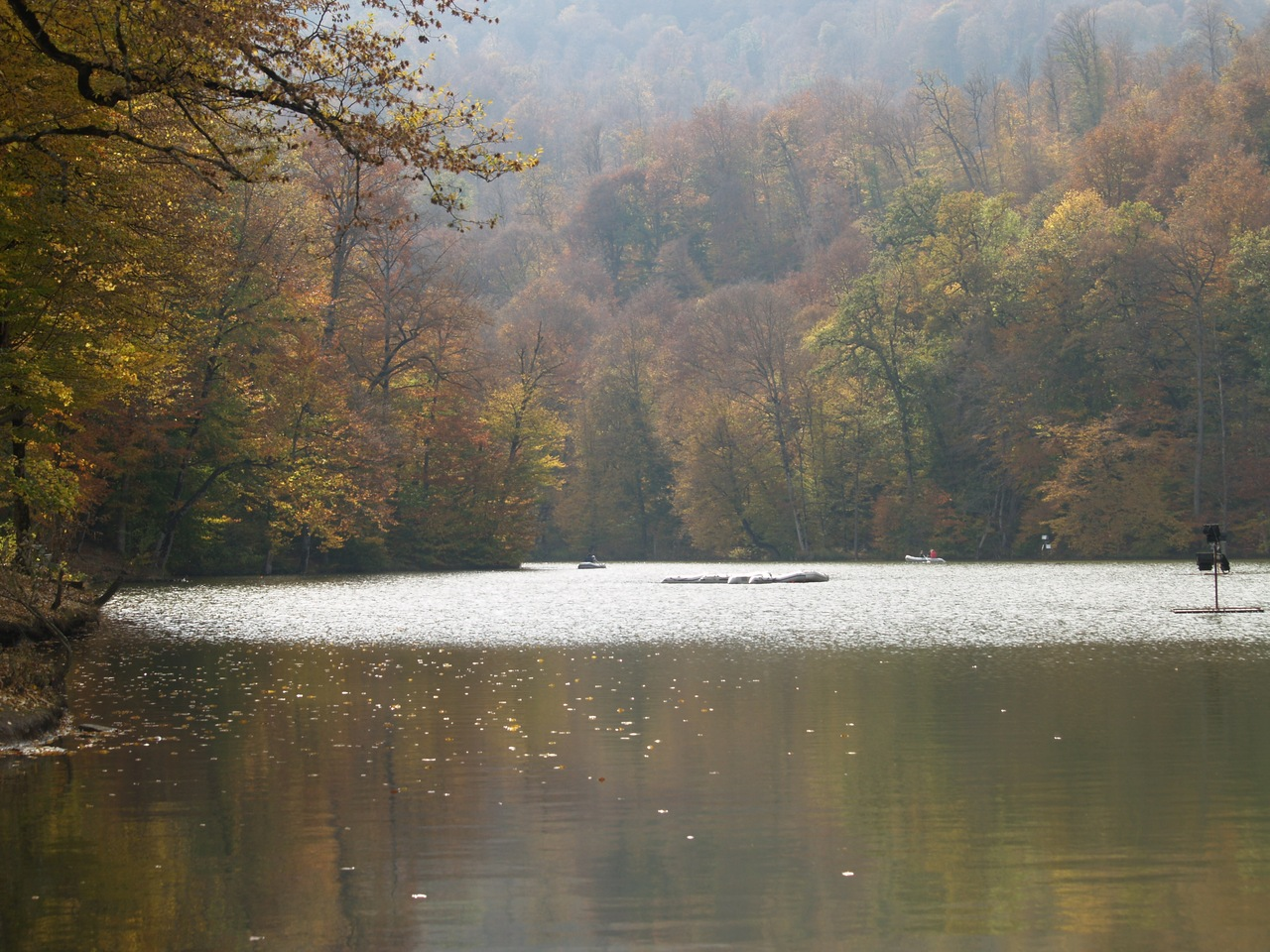 Parz lich